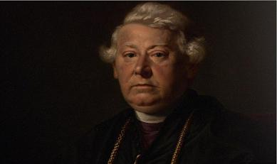 A photo of the portrait of archbishop James Alipius Goold as archbishop of Melbourne